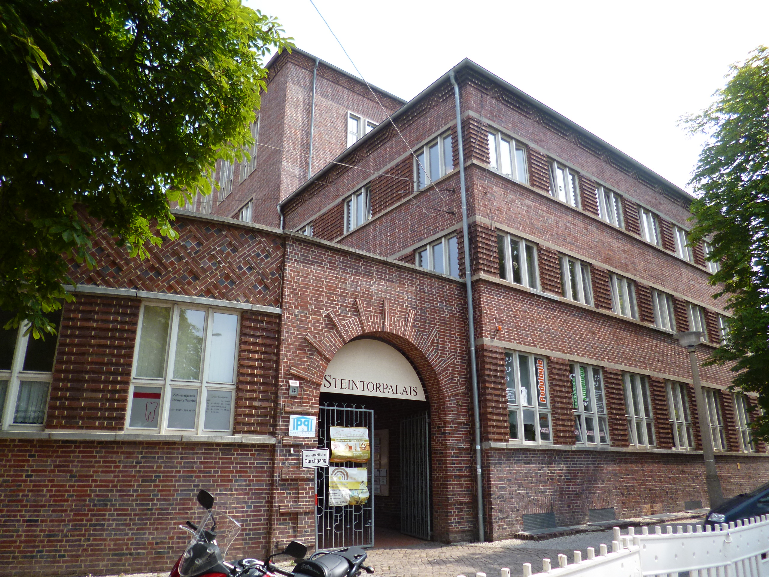 Former employment exchange, built 1929/30, today rest home, Am Steintor No. 14, Halle (Saale)